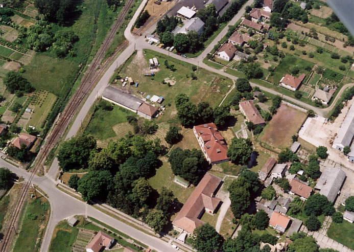 Palace - Tolmács - Hungary - Europe